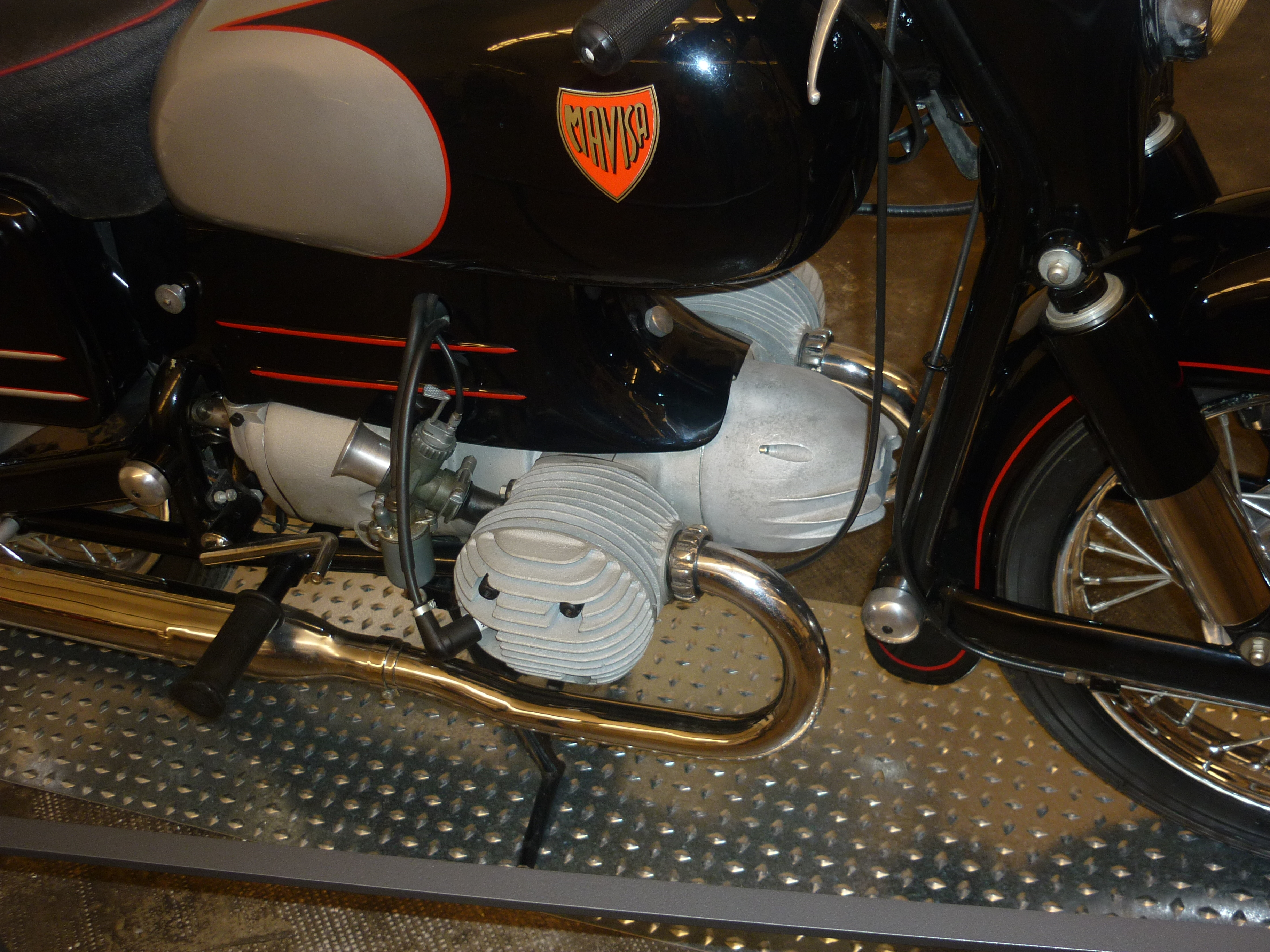 Engine of a Mavisa Sport 250cc (1957). Museu de la Moto de Barcelona (Catalonia).